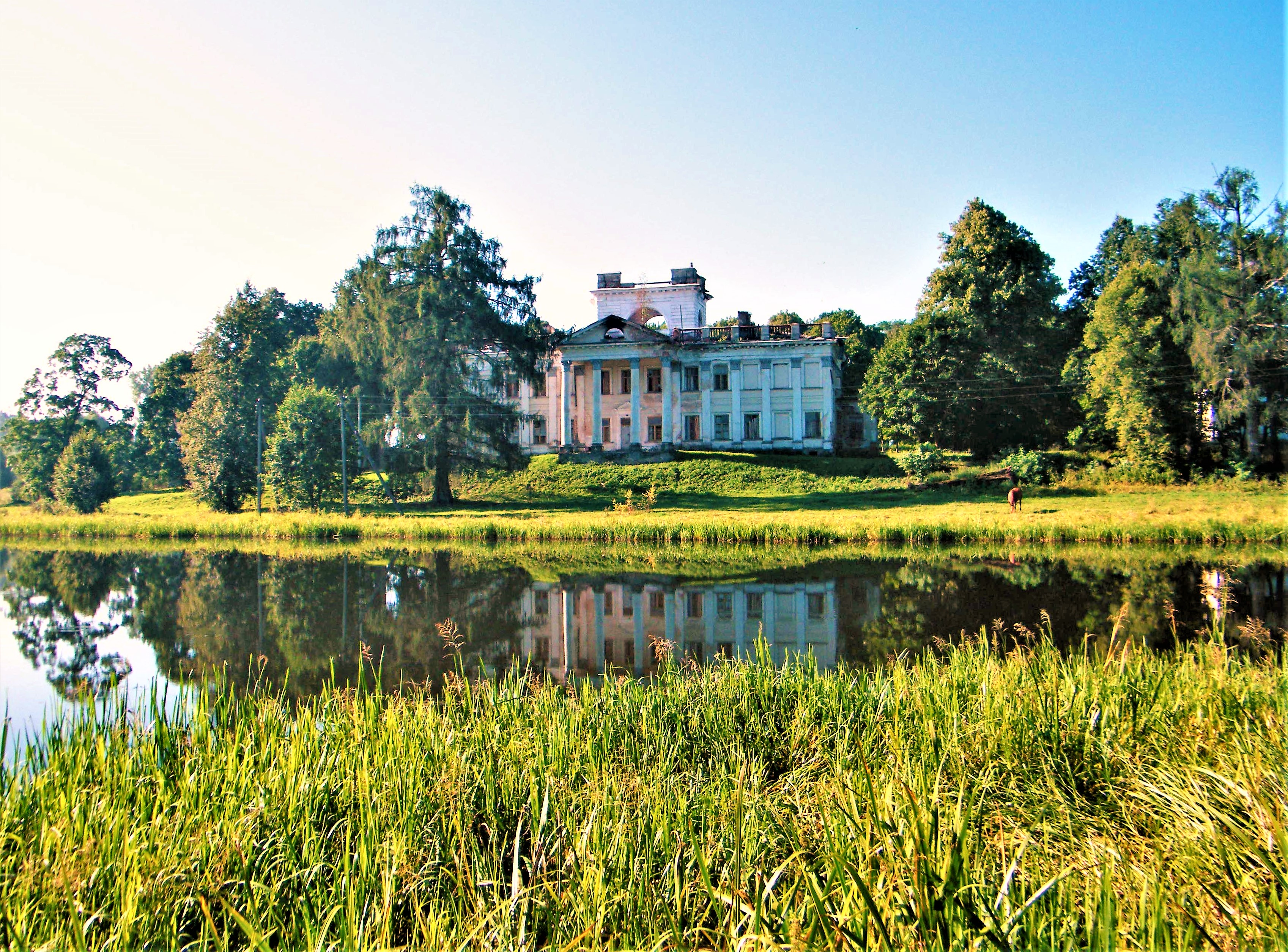 This is a photo of Belarusian heritage monument. Reference number: 413Г000296 ( WLM)